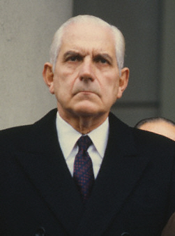 Image of Argentinian President Reynaldo Bignone at a Military Parade